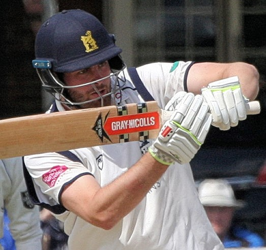 Dom Sibley is an Englsih cricketer.